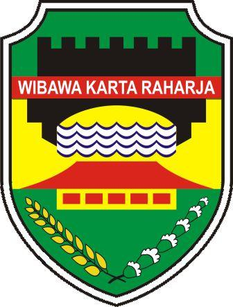 Coat of arms of Purwakarta Regency, West Java